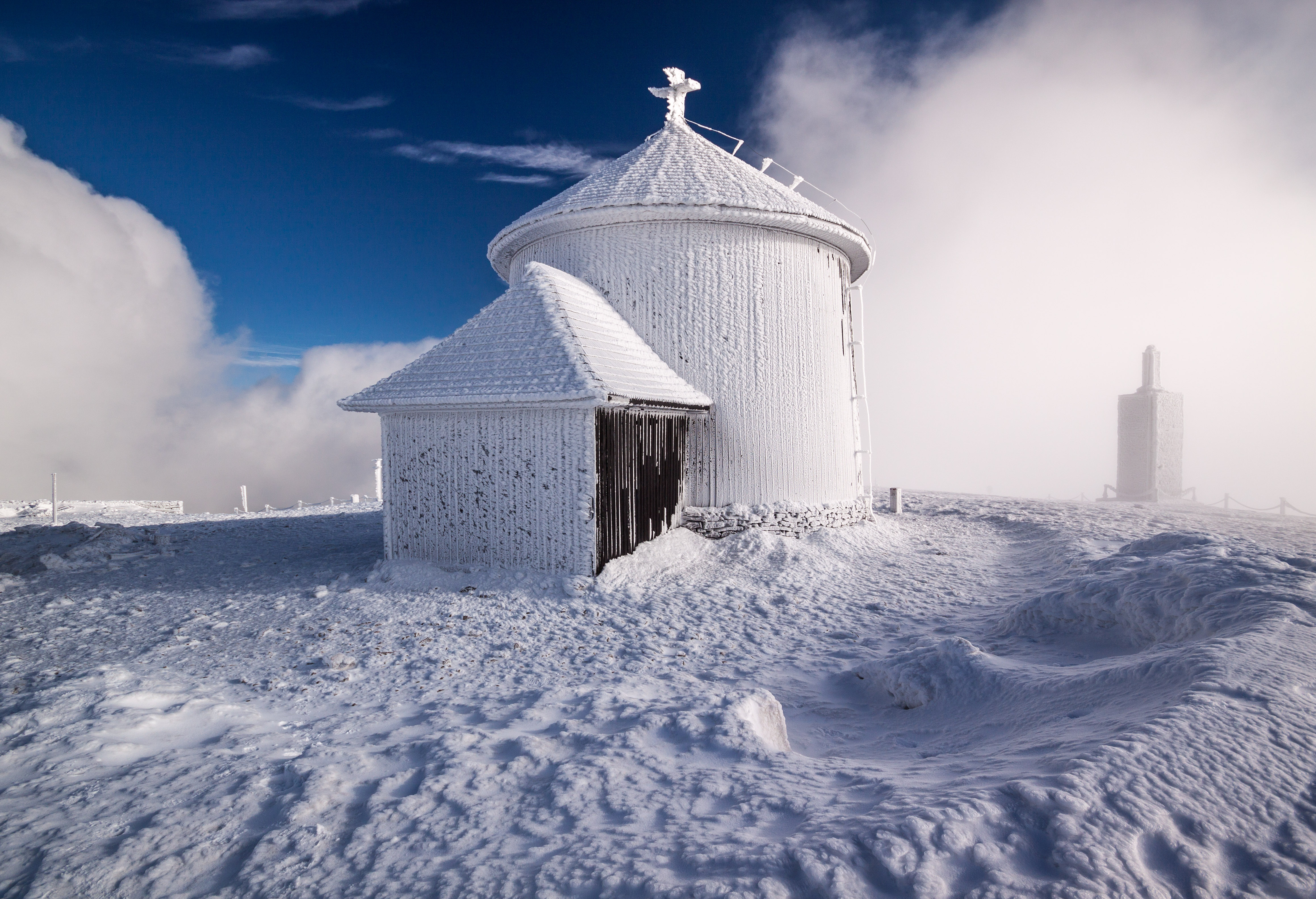 Saint Lawrence chapel on Sněžka